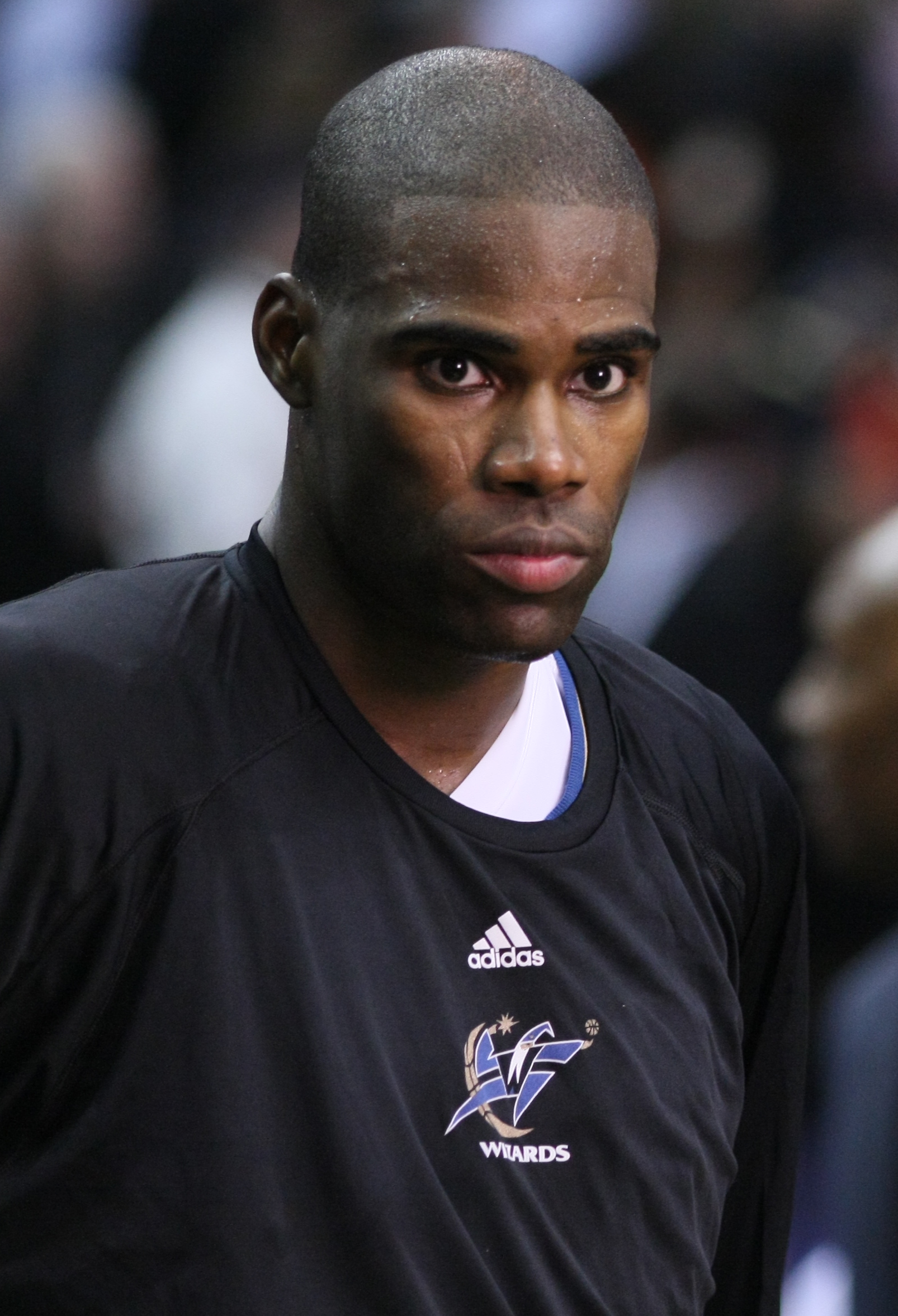 Antawn Jamison, November 2009.